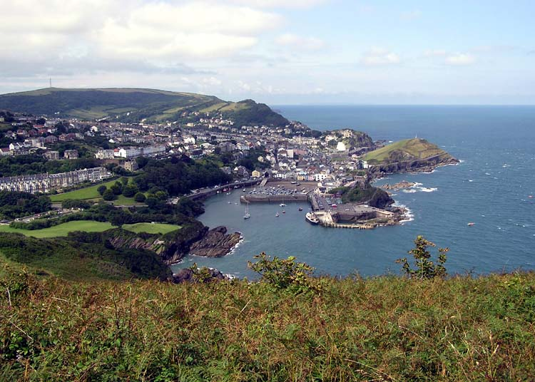 Ilfracombe, seen from 447 feet (136 metres) above. The viewpoint (Hillsborough) is part of the South West Coast Path. Taken by Adrian Pingstone in July 2004 and released to the public domain.